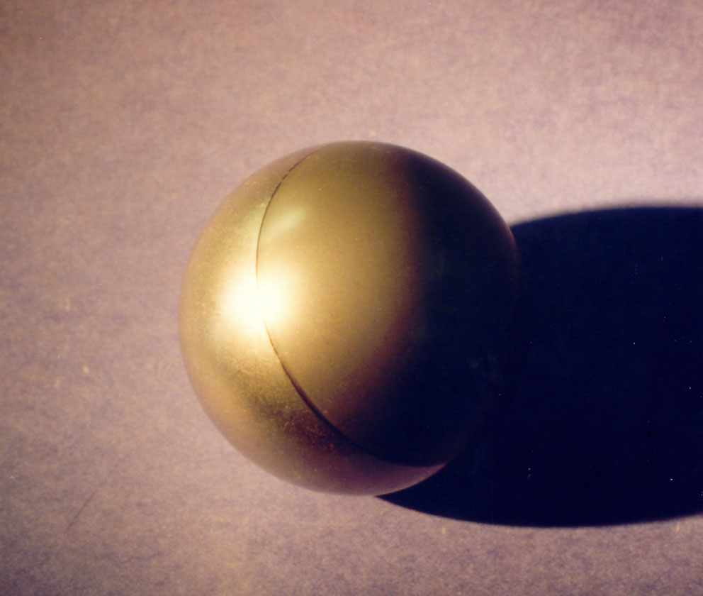 The most fragile part of a producing oil well, this high cobalt alloy was coated with ta-C on the right side to test the amount of increased resistance to the chemically aggressive and abrasive environment in which it would operate. Ball is 30 mm dia. Darker ring of DLC containing more graphitic phases bounds the area of the coating.